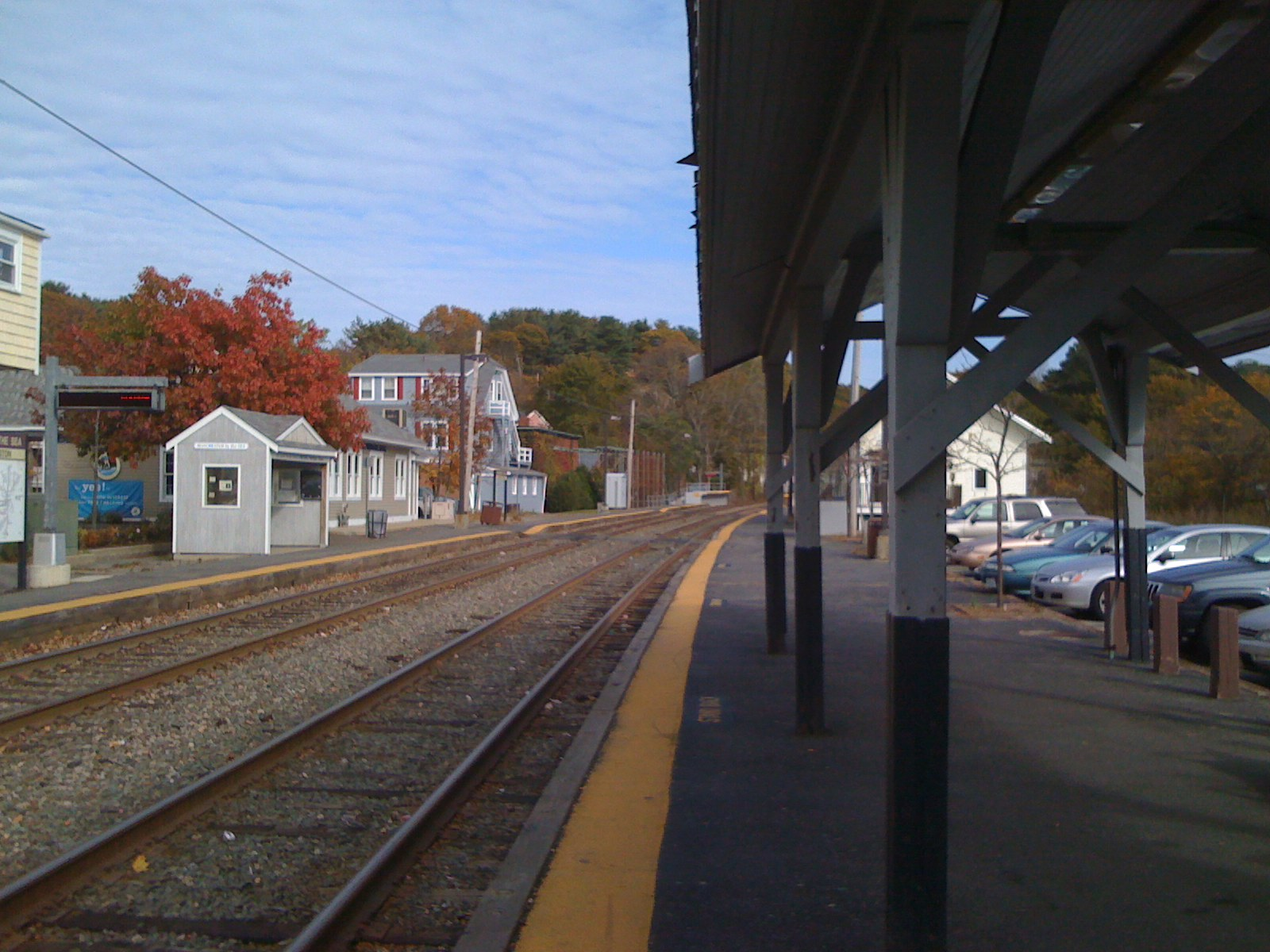 MBTA Manchester-by-the-Sea station